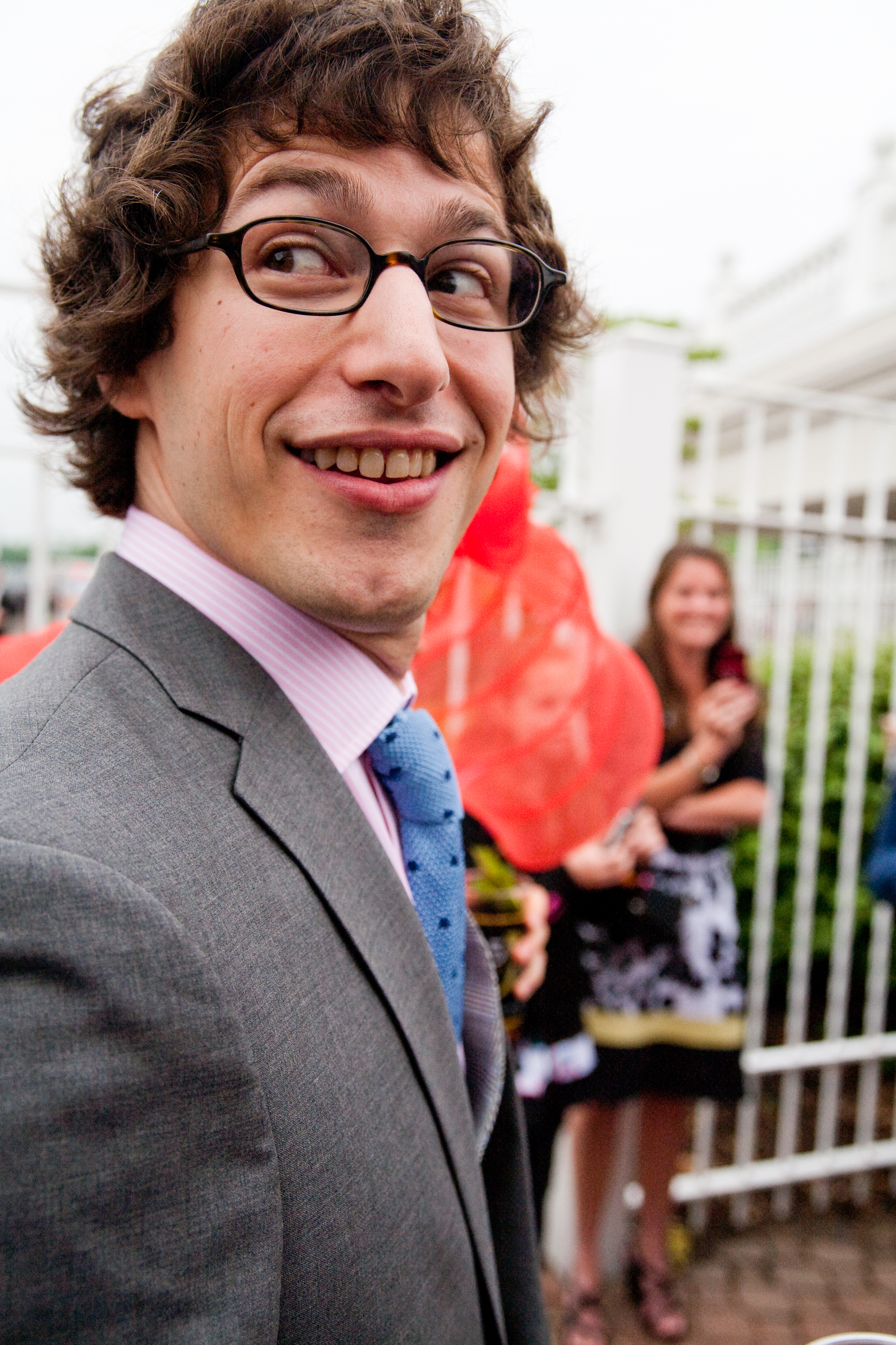 David Andrew "Andy" Samberg[1] (born August 18, 1978) is an American comedian, singer, rapper, actor, and writer best known for being a cast member on Saturday Night Live and a member of the comedy group The Lonely Island.